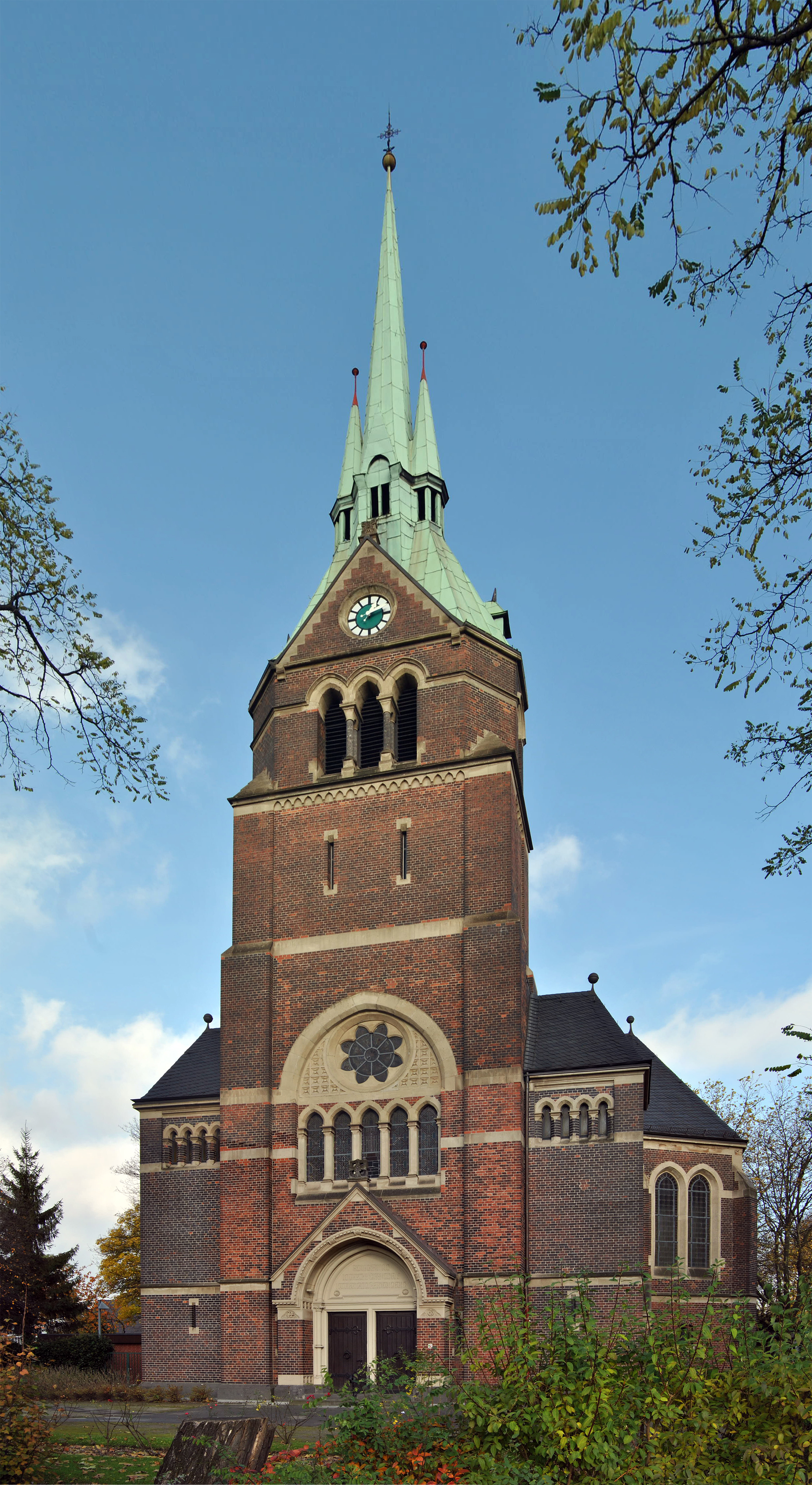 Duisburg (North Rhine-Westphalia, Germany) – borough Hamborn, district Obermarxloh – Protestant Churche of Peace This image shows a heritage building in Germany, located in the North Rhine-Westphalian city Duisburg (no. 12). This photograph was taken with a Nikon D3000.